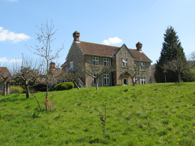 The Friary of St Francis, Hilfield The Friary houses 7 Franciscan Brothers and also has a Peace and the Environment Project, where volunteers can live and work on the 19 acre site.